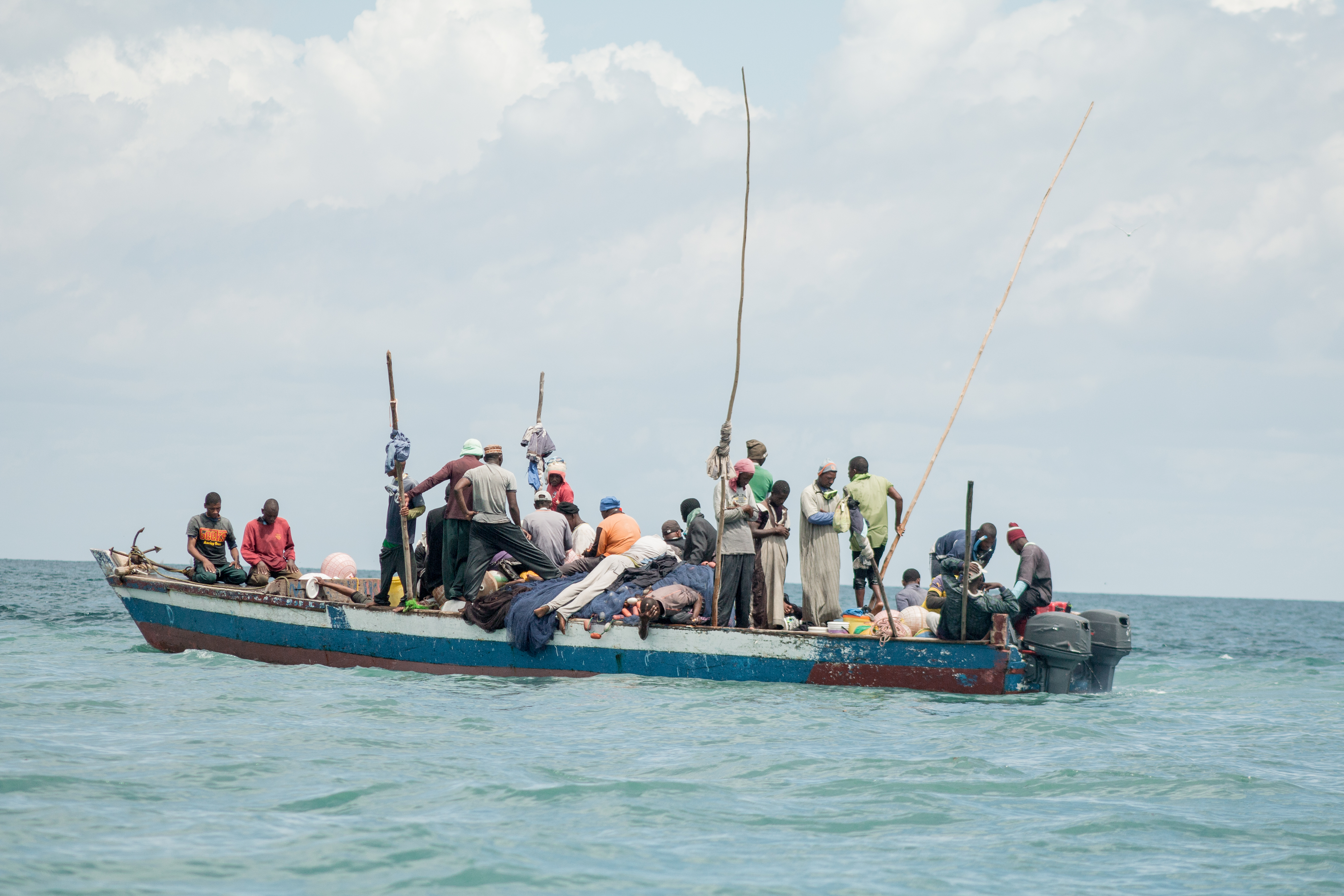 This is an image with the theme "Africa on the Move or Transport" from: Tanzania